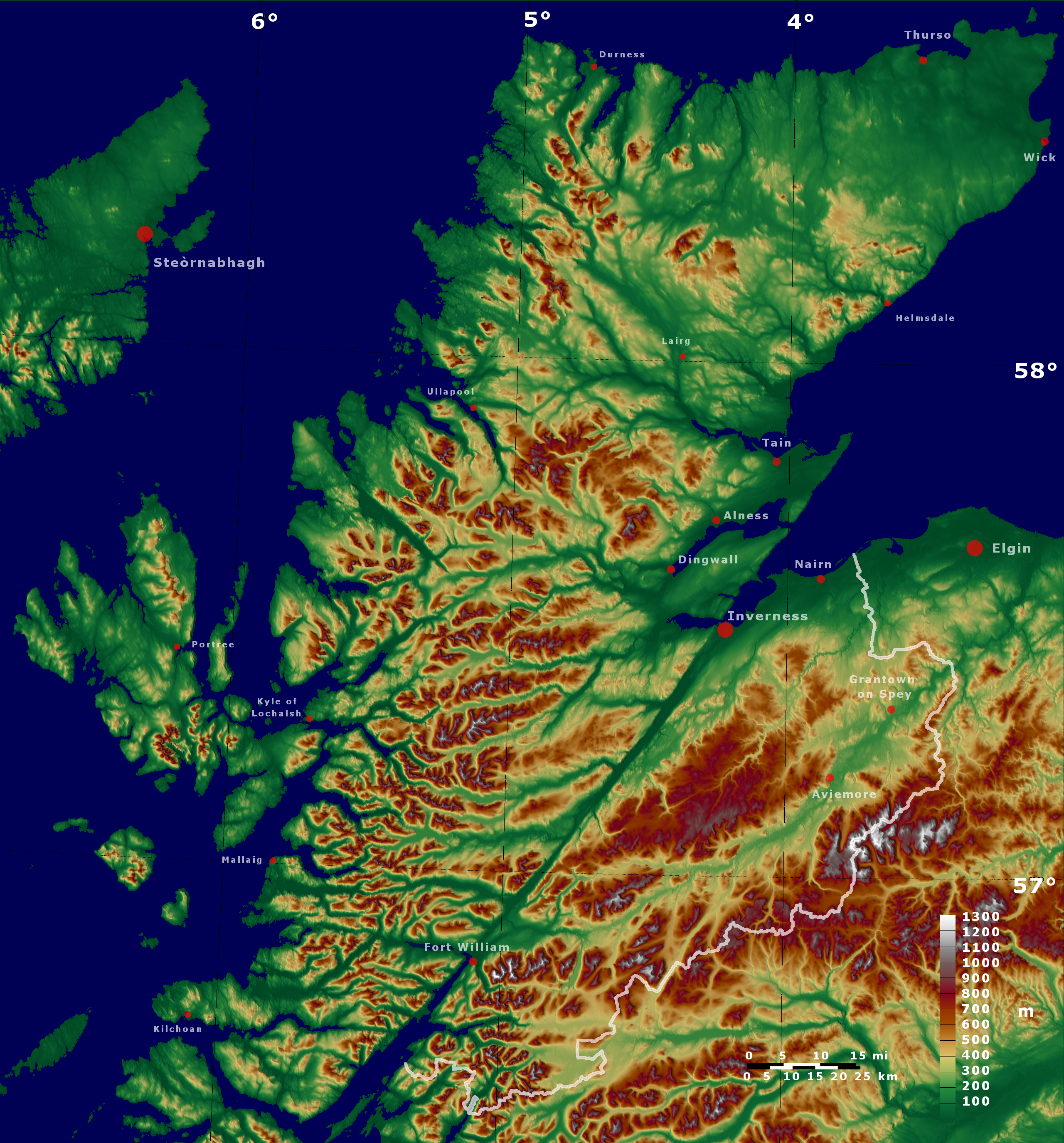 Map created with 3DEM from SRTM ( Administrative boundaries from OpenStreetMap.